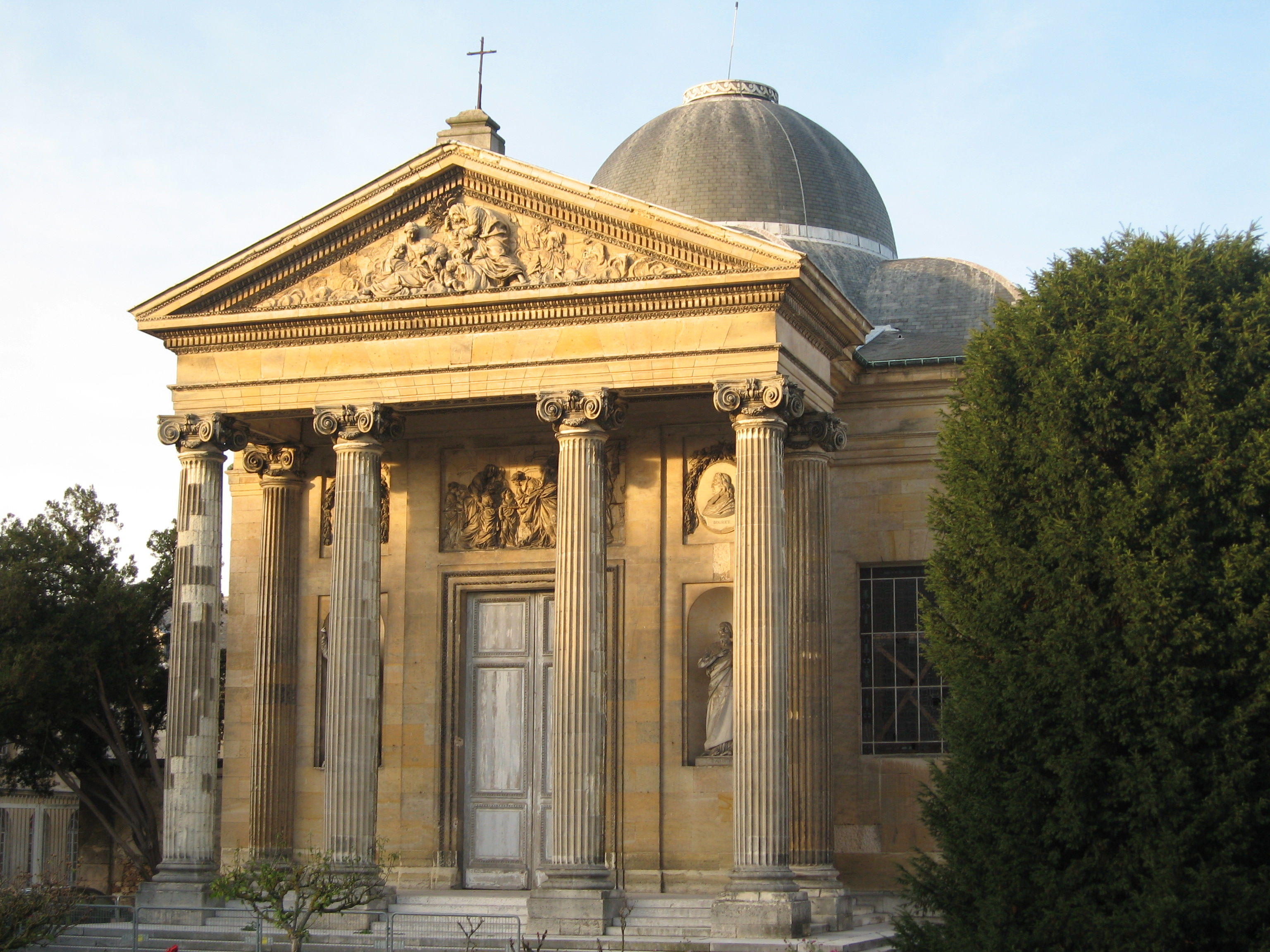 Chapel of the Lycée Hoche in Versailles